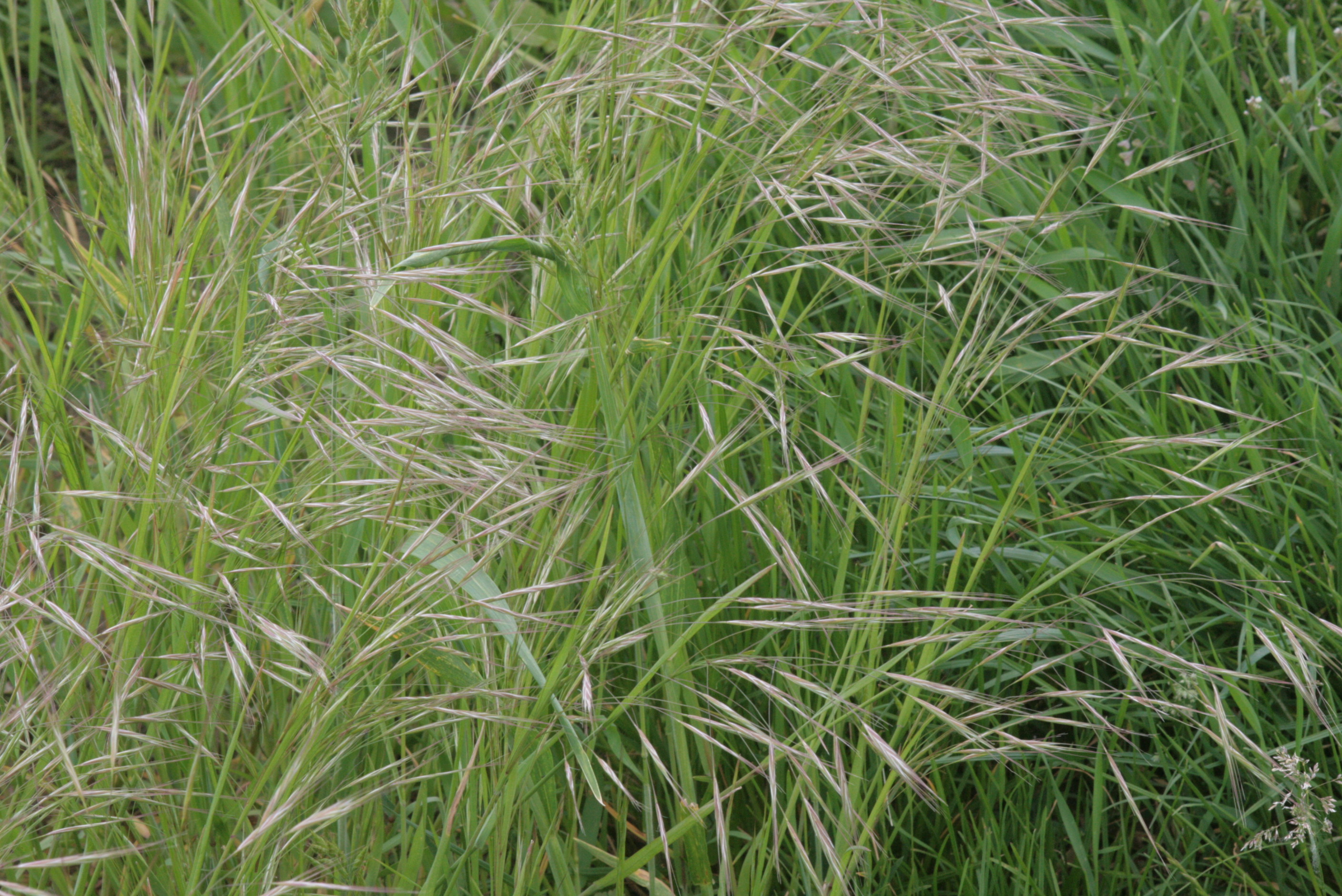 Bromus sterilis